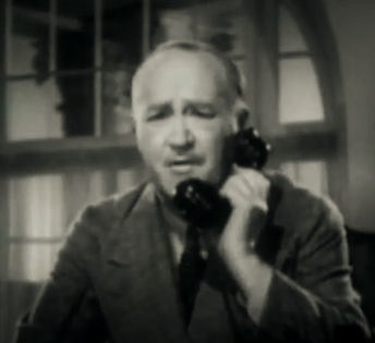 Lionel Pape in the film Eternally Yours (1939) - cropped screenshot